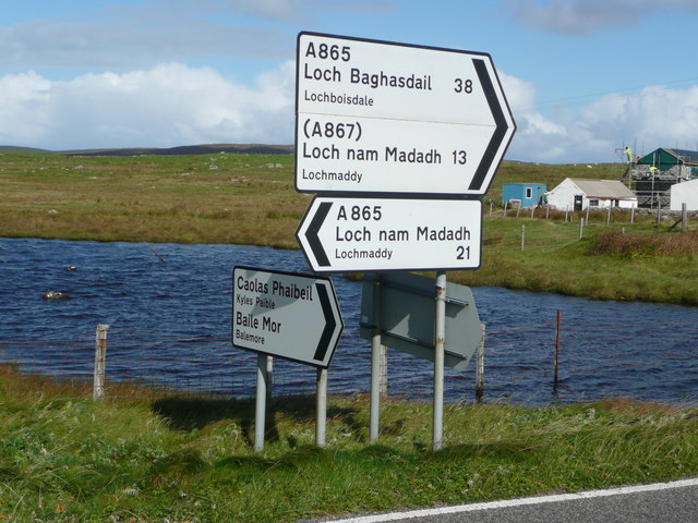 Signpost at Bayhead It is shorter and quicker to turn right for Lochmaddy!